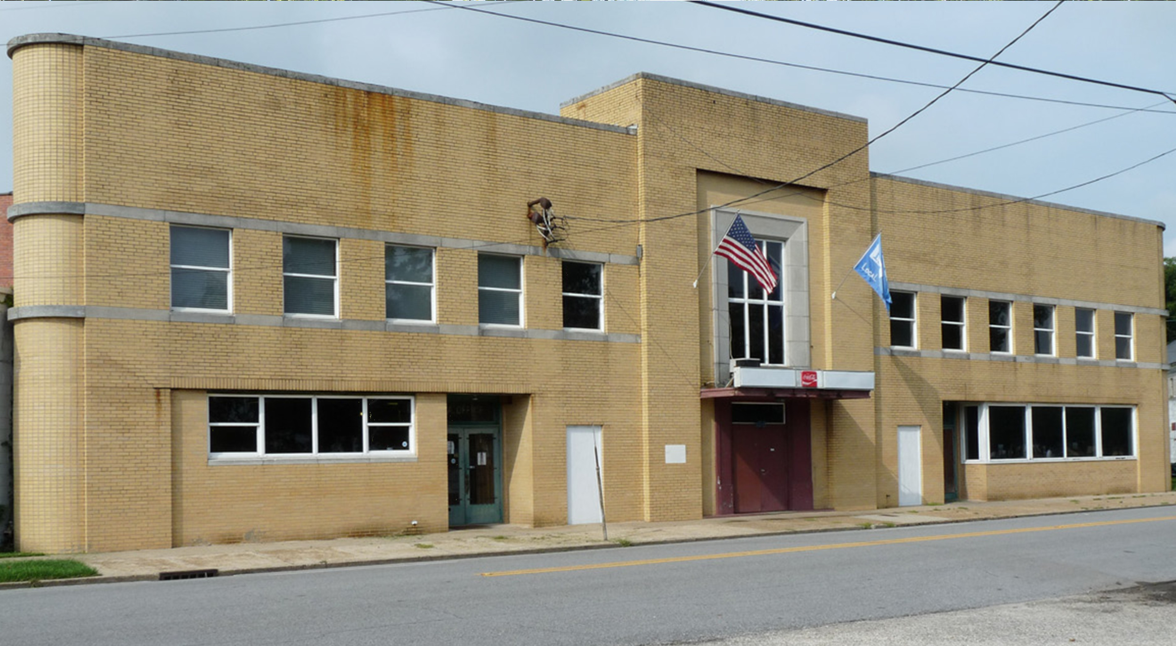 International Longshoreman’s Association Hall in Mobile, Alabama. Listed on the NRHP.